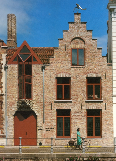 House of architect Erik Van Biervliet, Bruges, Sint-Annarei 11. Award winning realization (Multiple times)